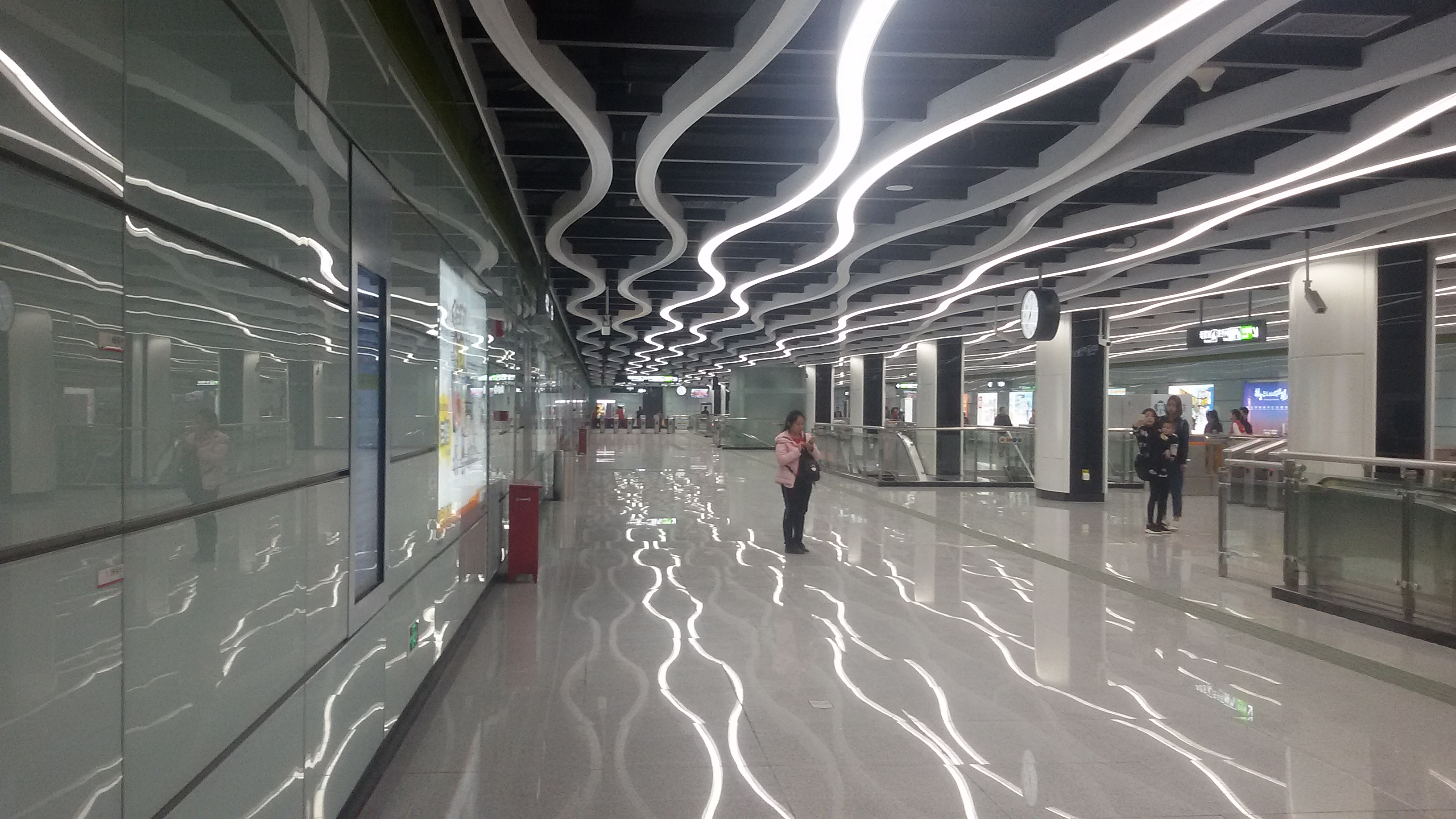 Station Concourse for Nangang Station in Guangzhou Metro.